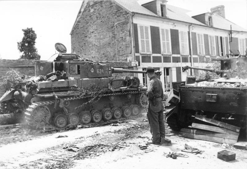 Information added by Wikimedia users.Pkz IV not a Tiger I/E [it was at Villers-Bocage with the Tigers]